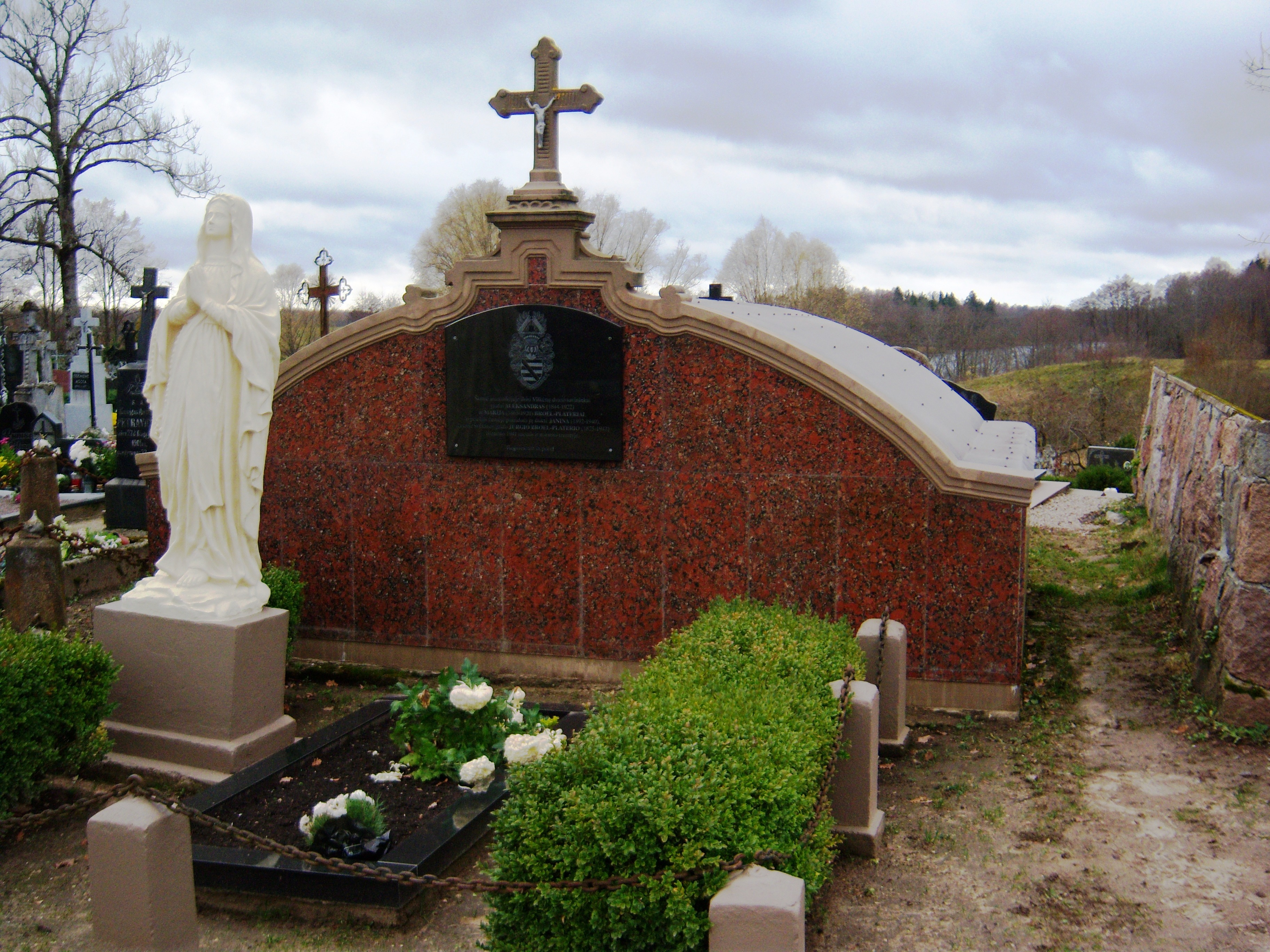 Cemetery in Švėkšna, Šilutė District, Lithuania